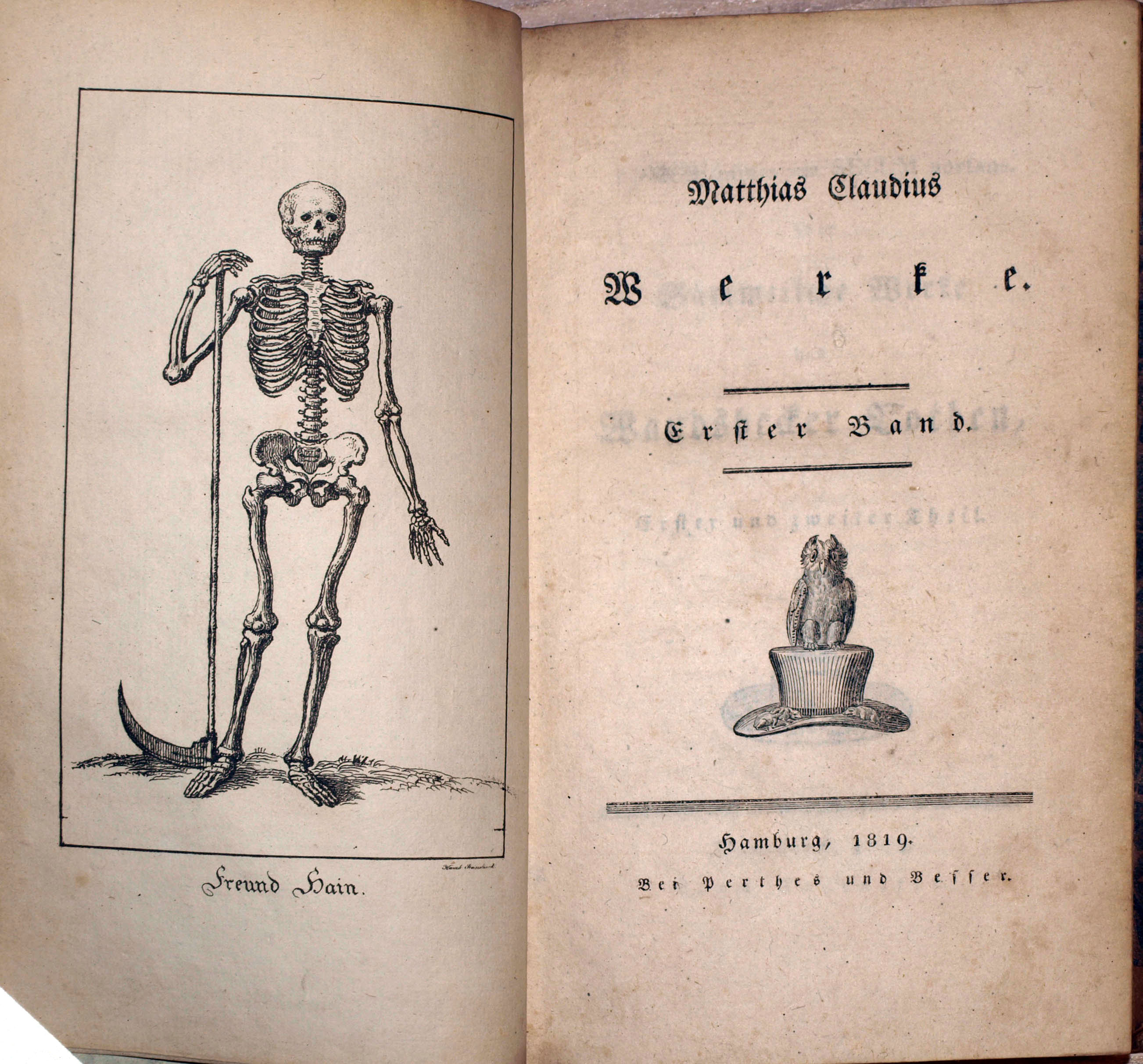 The title pages of the first volume of the collected works of Matthias Claudius. The 1819 edition.